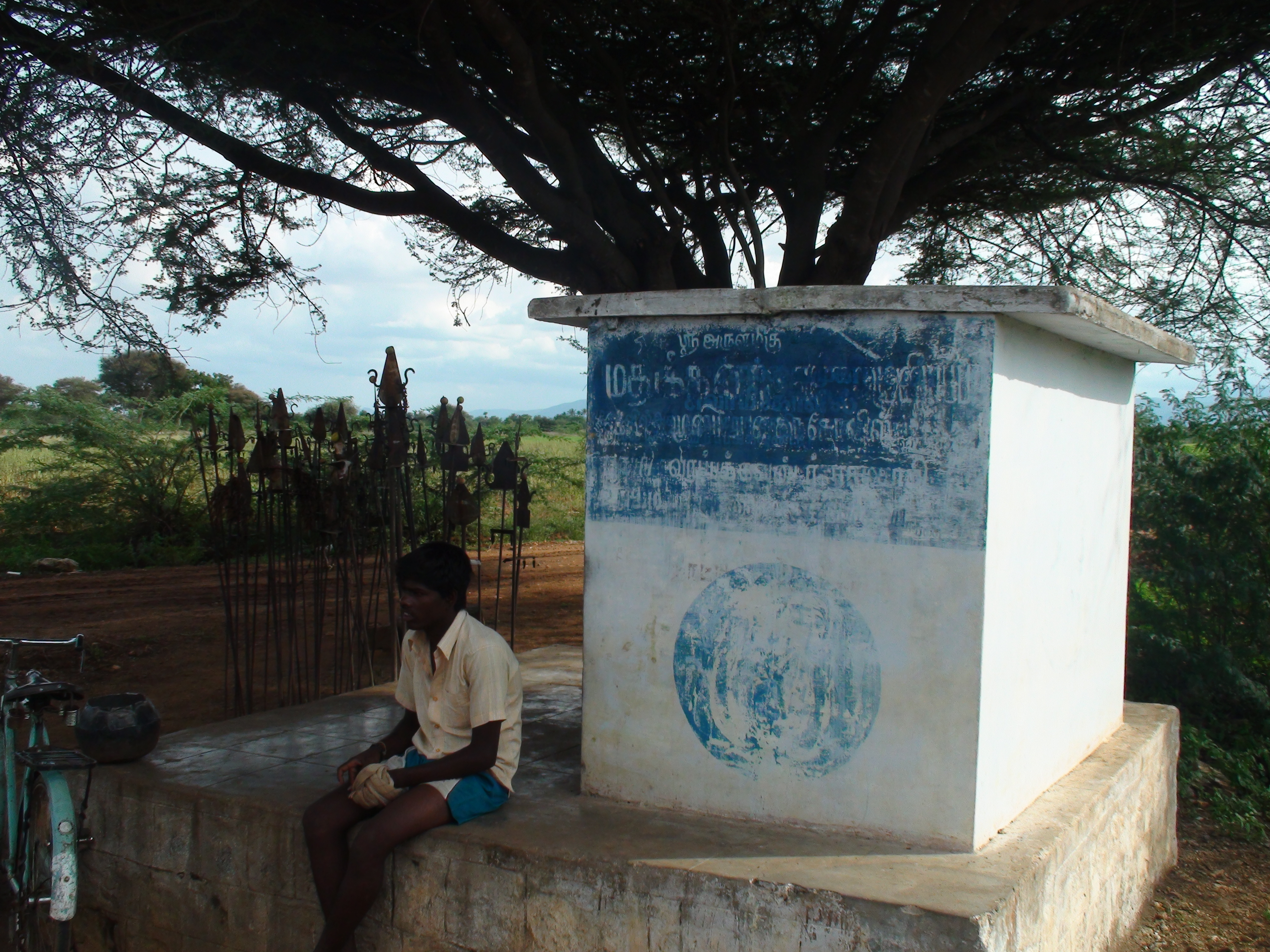 Muni